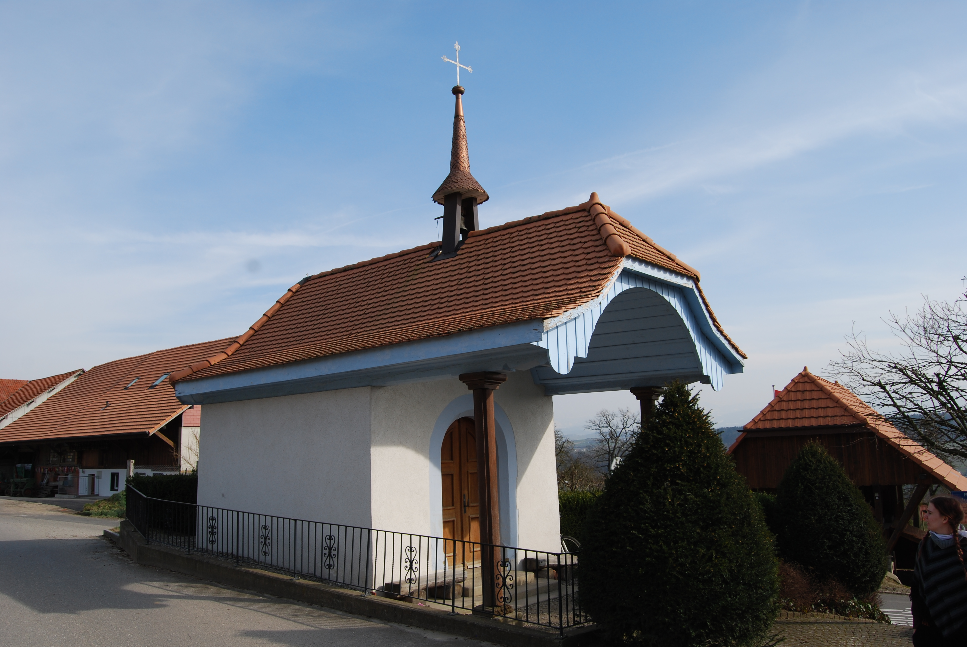 Chapel of Nativité de Marie at La Corbaz, municipality of La Sonnaz, canton of Fribourg, Switzerland